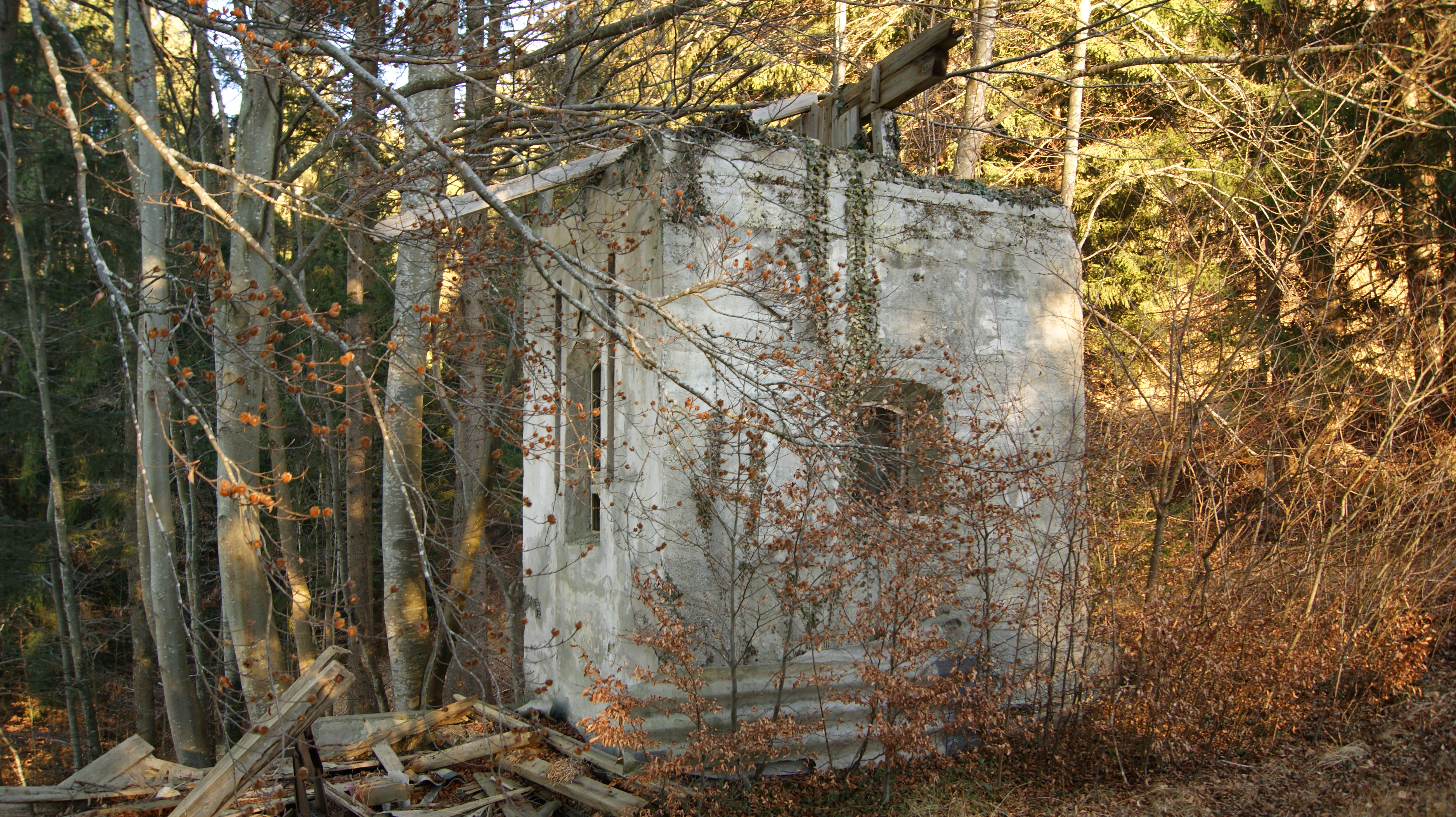 Decayed mountain station of the Experimental ropeway Batschuns (municipality of Zwischenwasser) by Karl PETER (ca. 683 - 825 m.ü.A.), existed from 1947 to 1962/63.